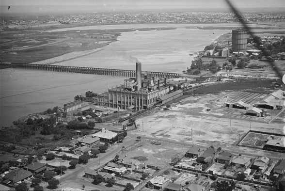 Bunbury Bridge, East Perth c.1935. East Perth Power Station in the centre, Burswood on the left, and Heirisson Islands at the top